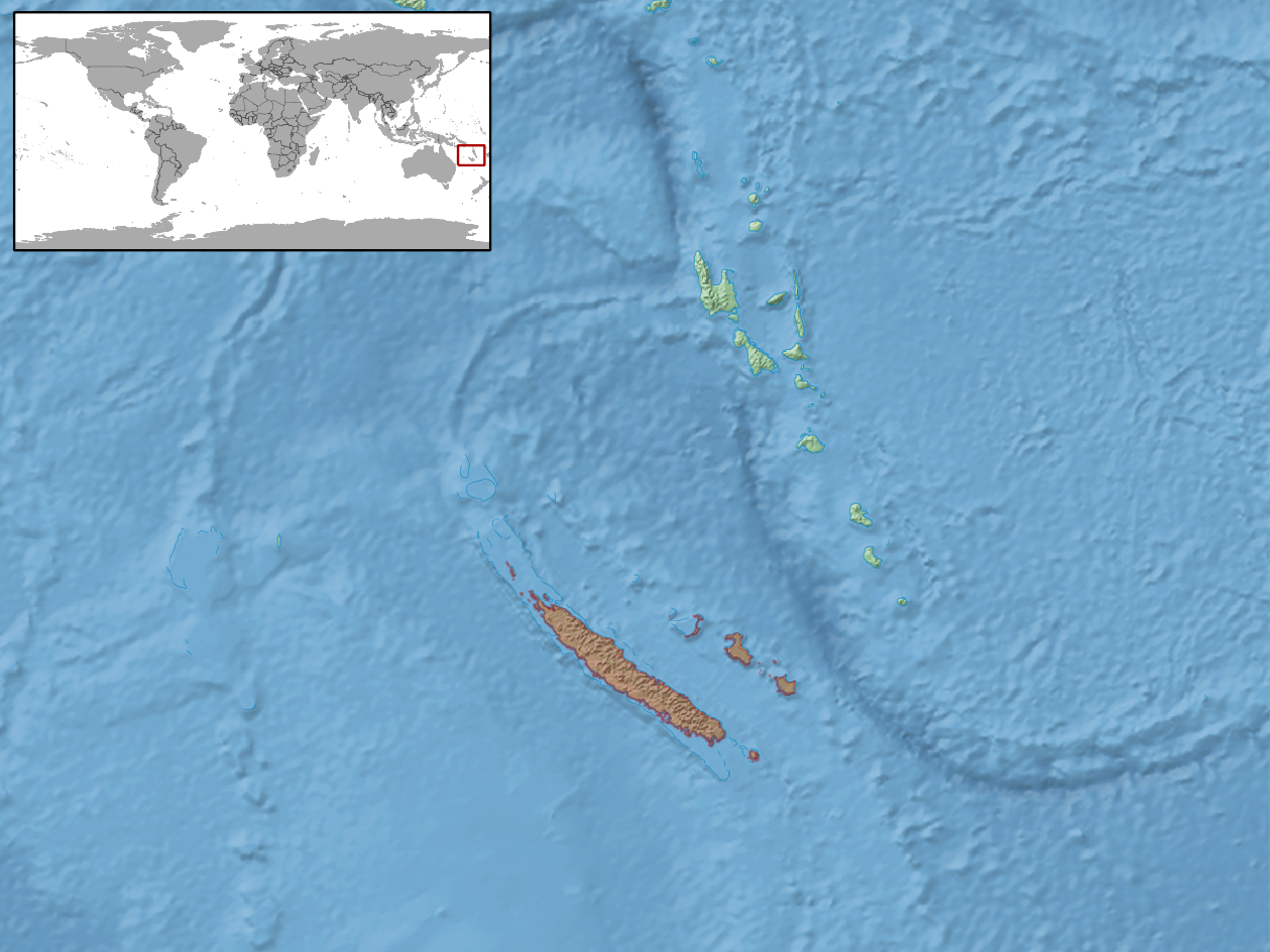 geographic distribution of Caledoniscincus austrocaledonicus, following the RDB definition (Caledoniscincus bodoi as synonym)